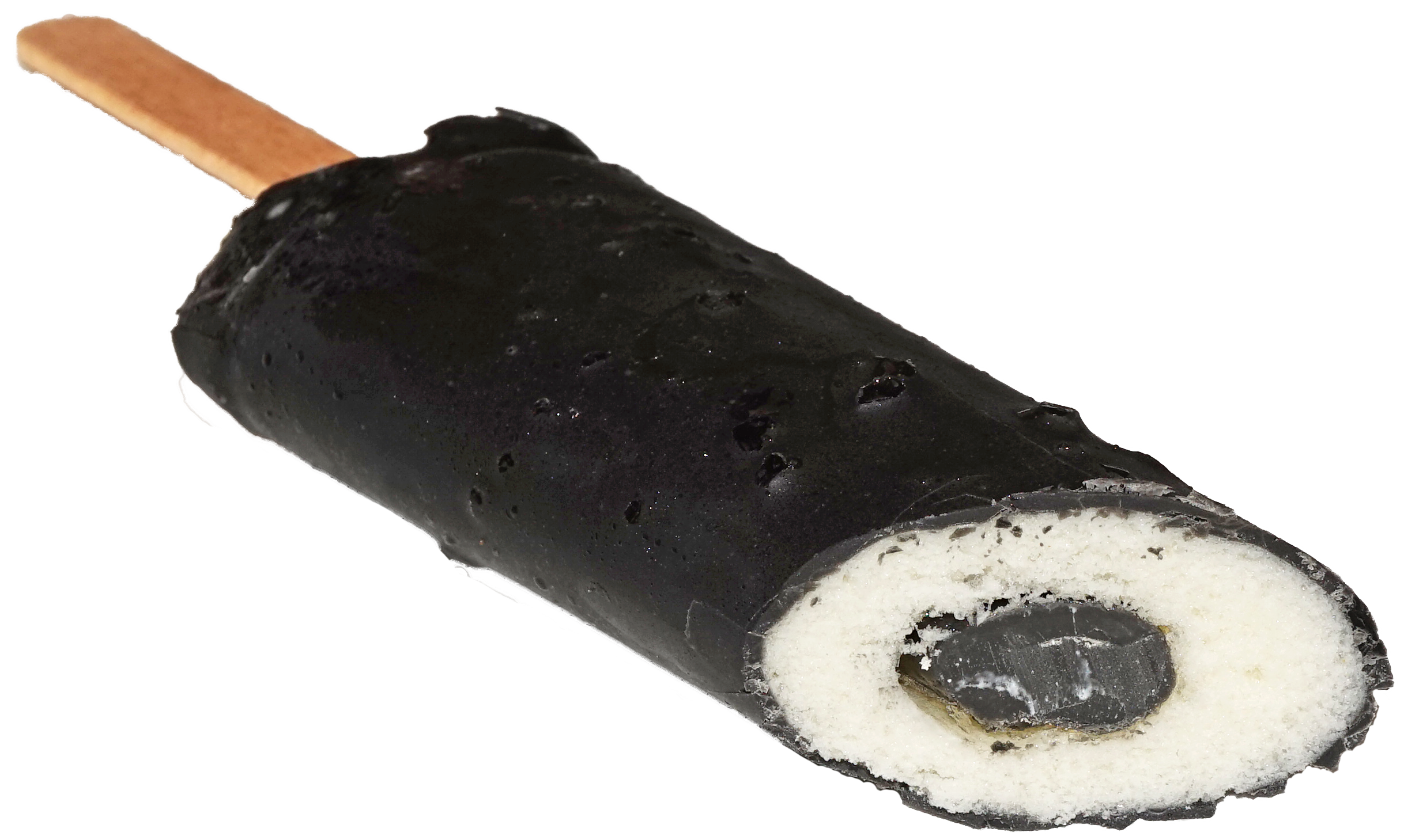 Tyrkisk Peber ice cream with salmiak filling and liquorice covering by Fazer.